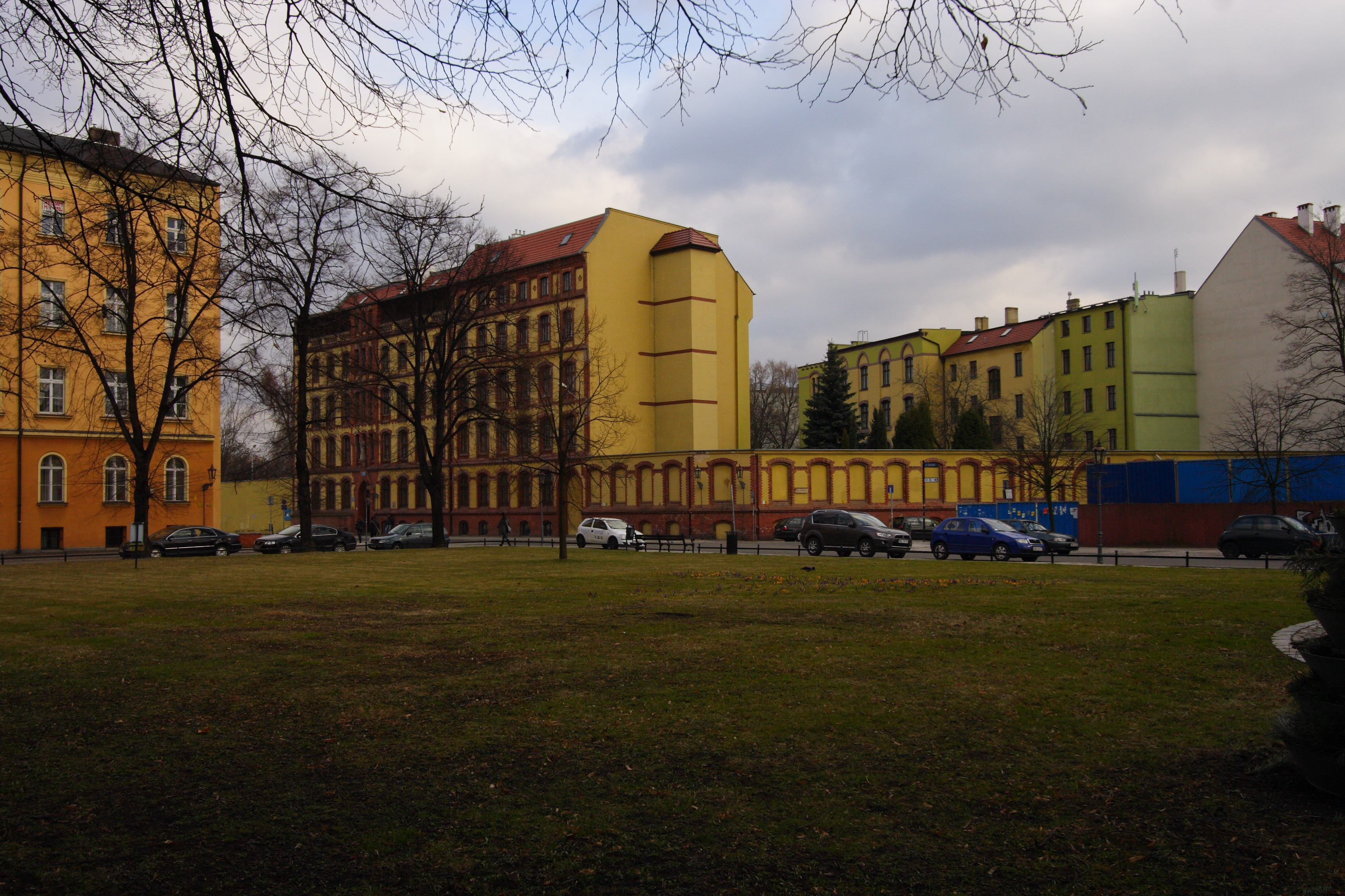 Wroclaw during WikiConference Poland'11